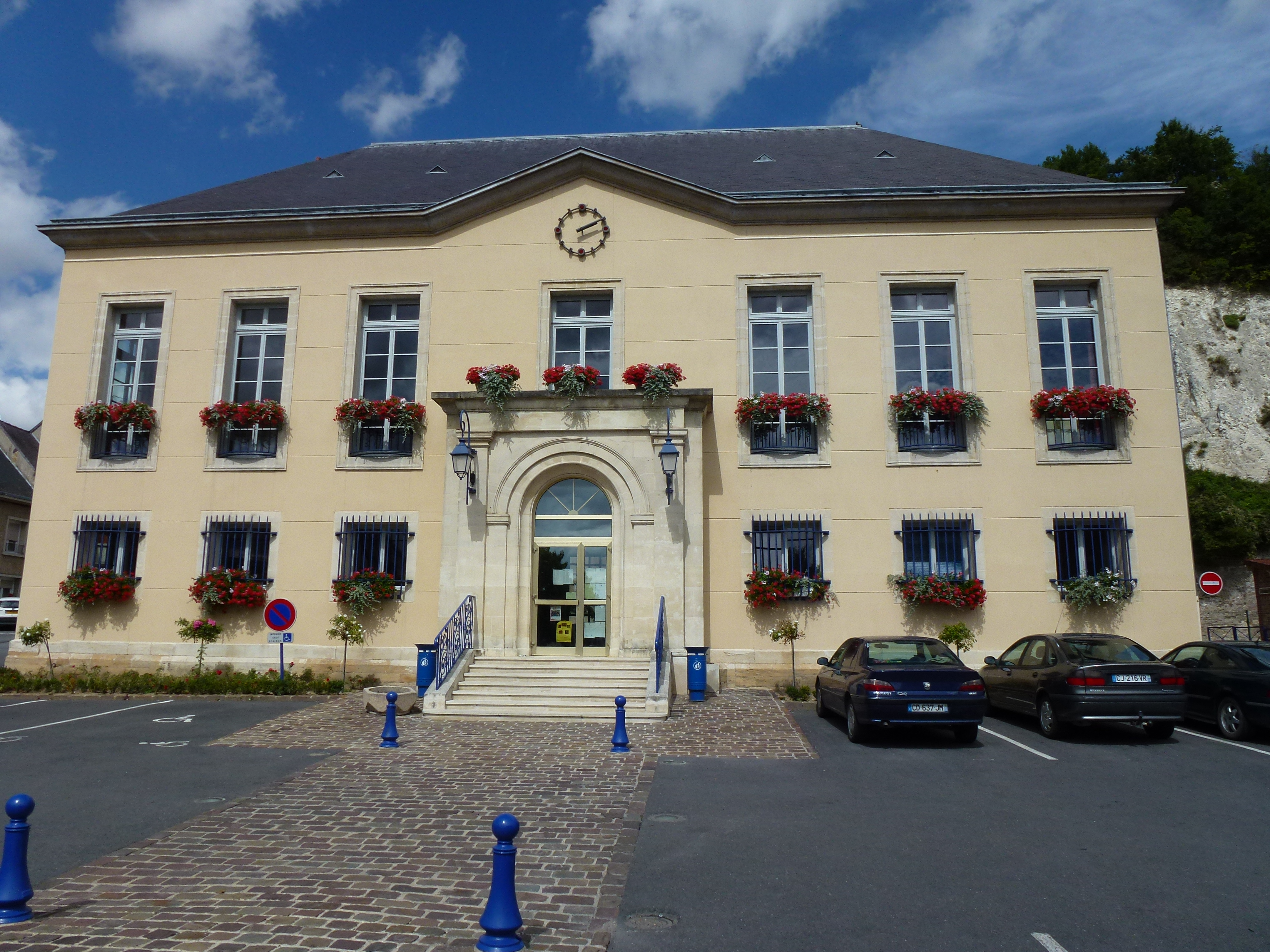 Château-Porcien (Ardennes) mairie